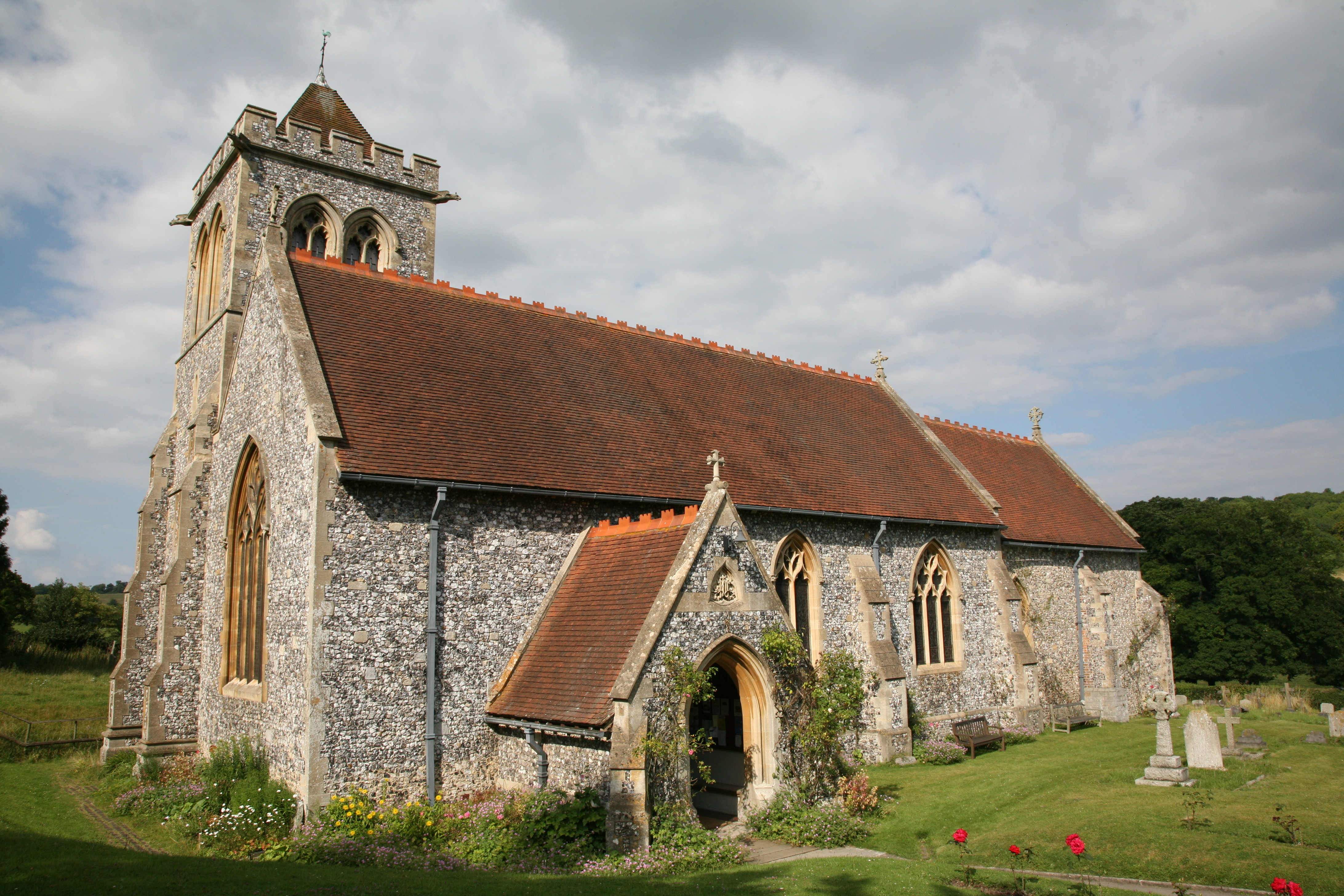 The church St. Michael and All Angels in Hughenden, High Wycombe.